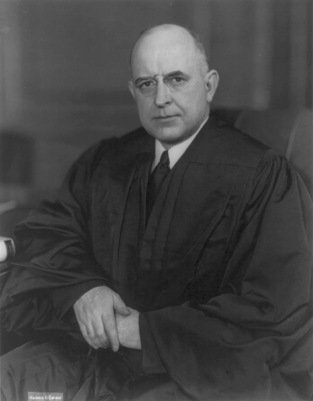 U.S. Supreme Court photograph of Stanley Forman Reed